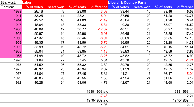 South Australian election results, 1938-1982, showing the effect of the "Playmander" Gerrymandering system and its subsequent removal. Elections between 1938 and 1968 contested 39 seats, but from 1970 this was increased to 47. The data for each election was sourced from the Wikipedia articles on each election.